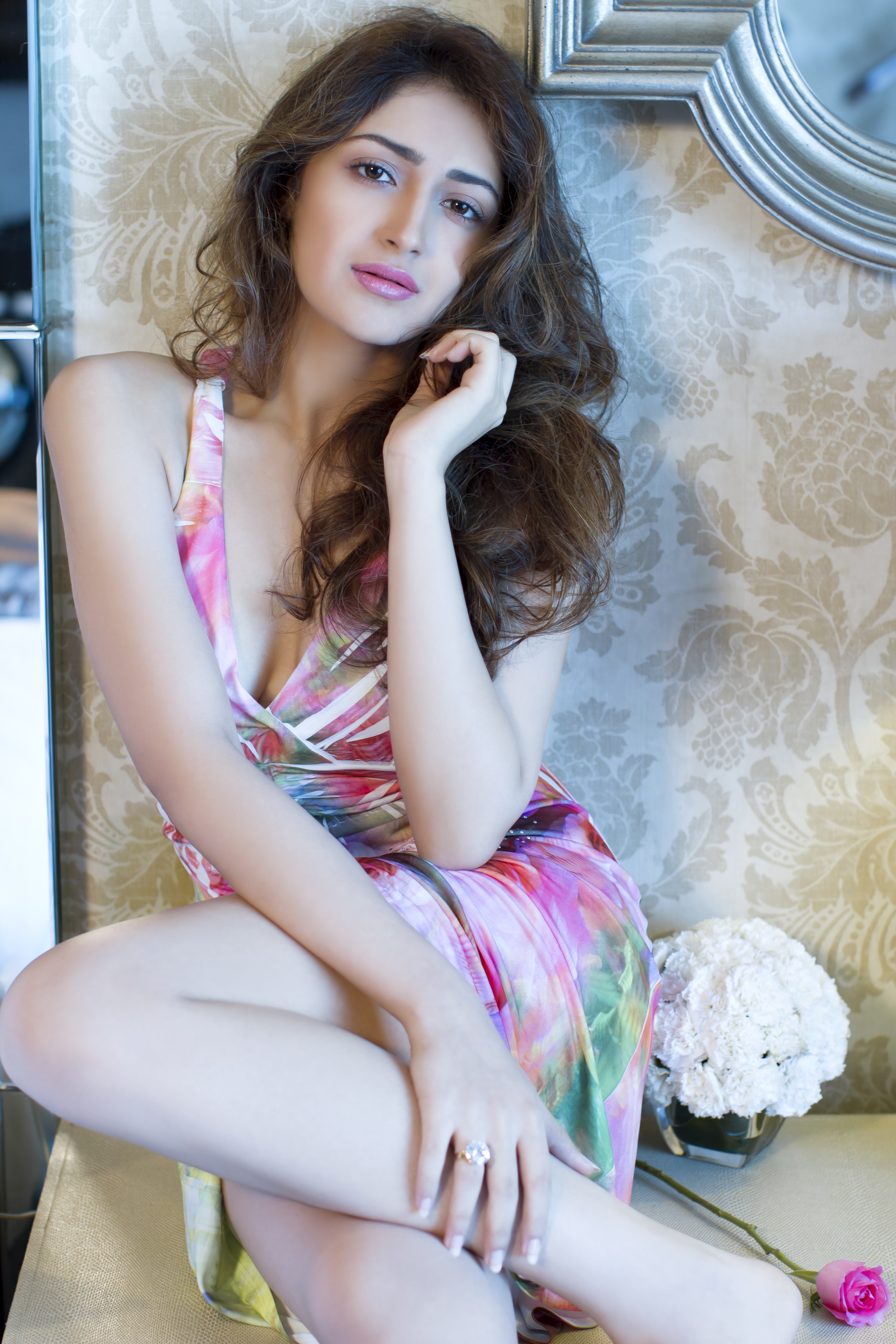 Photo Courtesy: Jatin Kampani